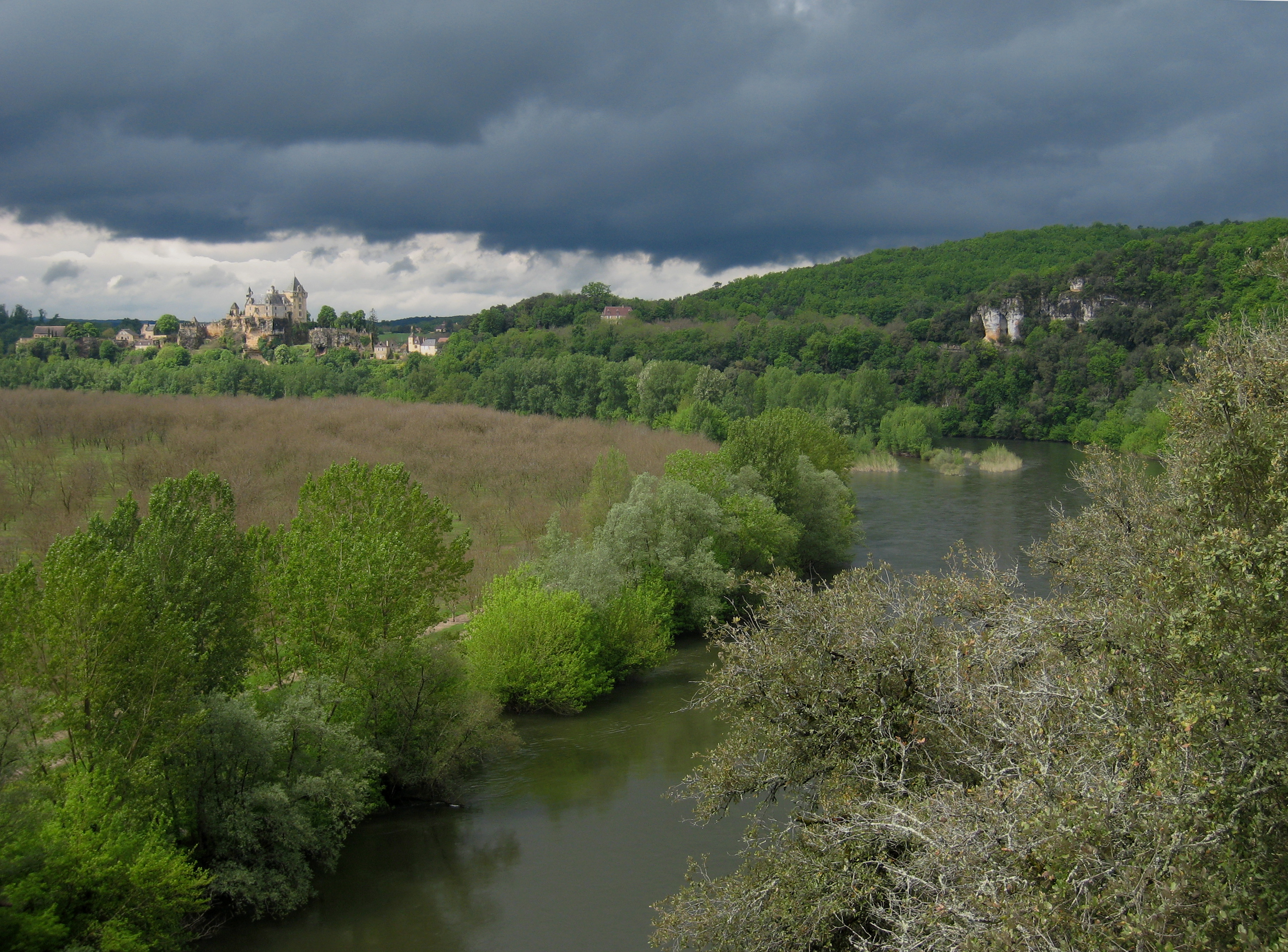 “Cingle de Montfort” of ther river Dordogne in the Département of Dordogne/France; Château de Montfort in the distance.